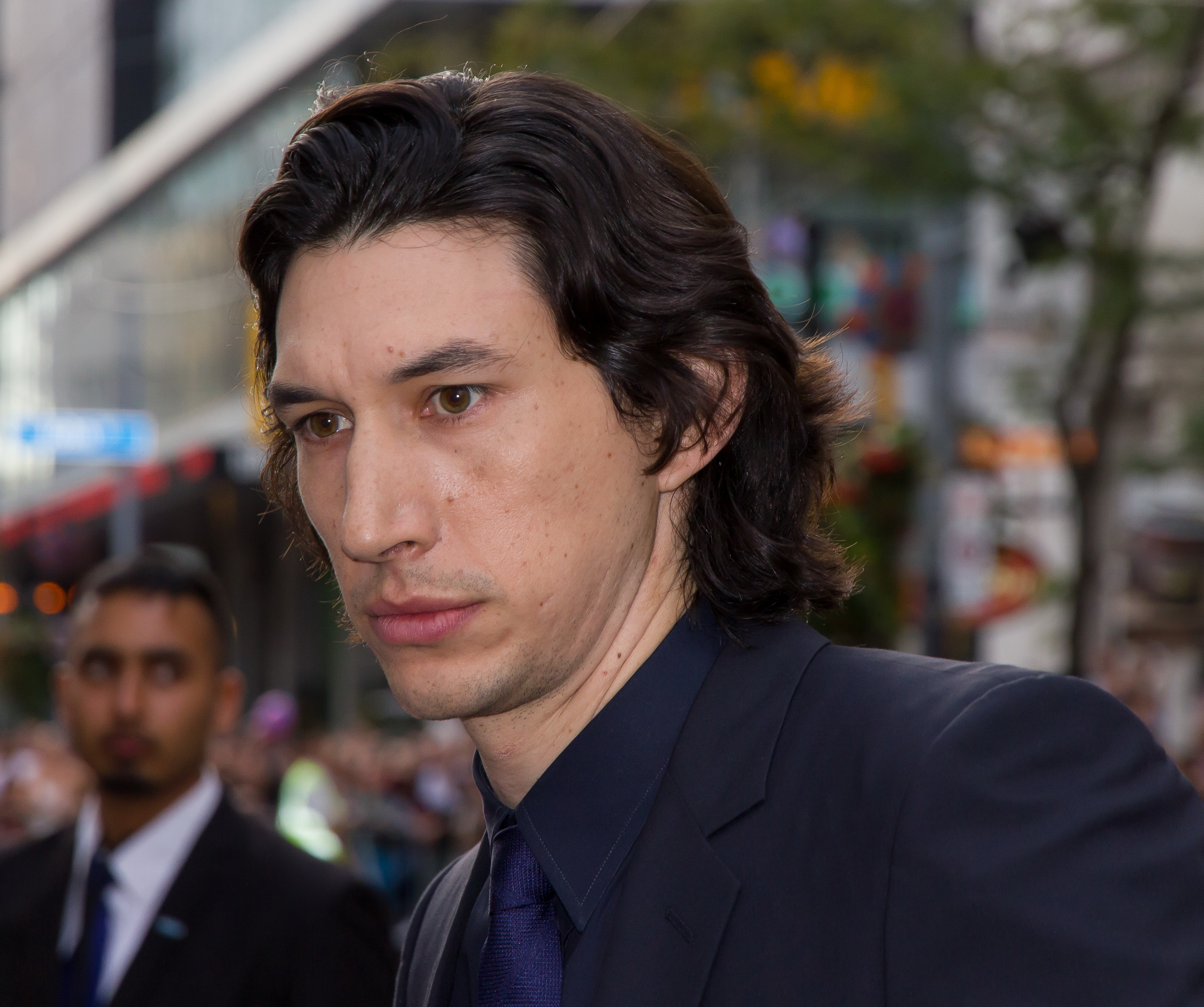 Adam Driver at the While We're Young premiere at the 2014 Toronto International Film Festival